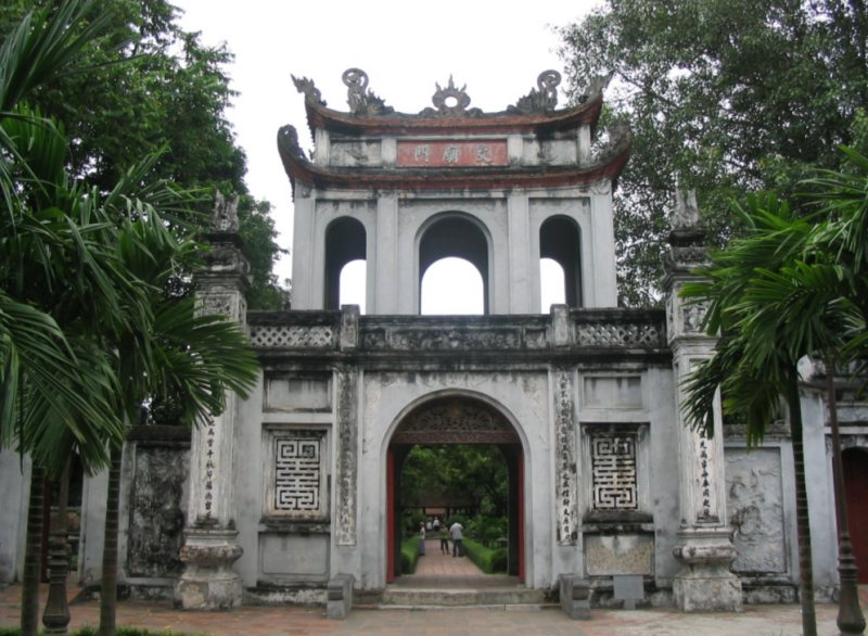 Description: Temple of literature (Hanoi). Source: Camille Harang